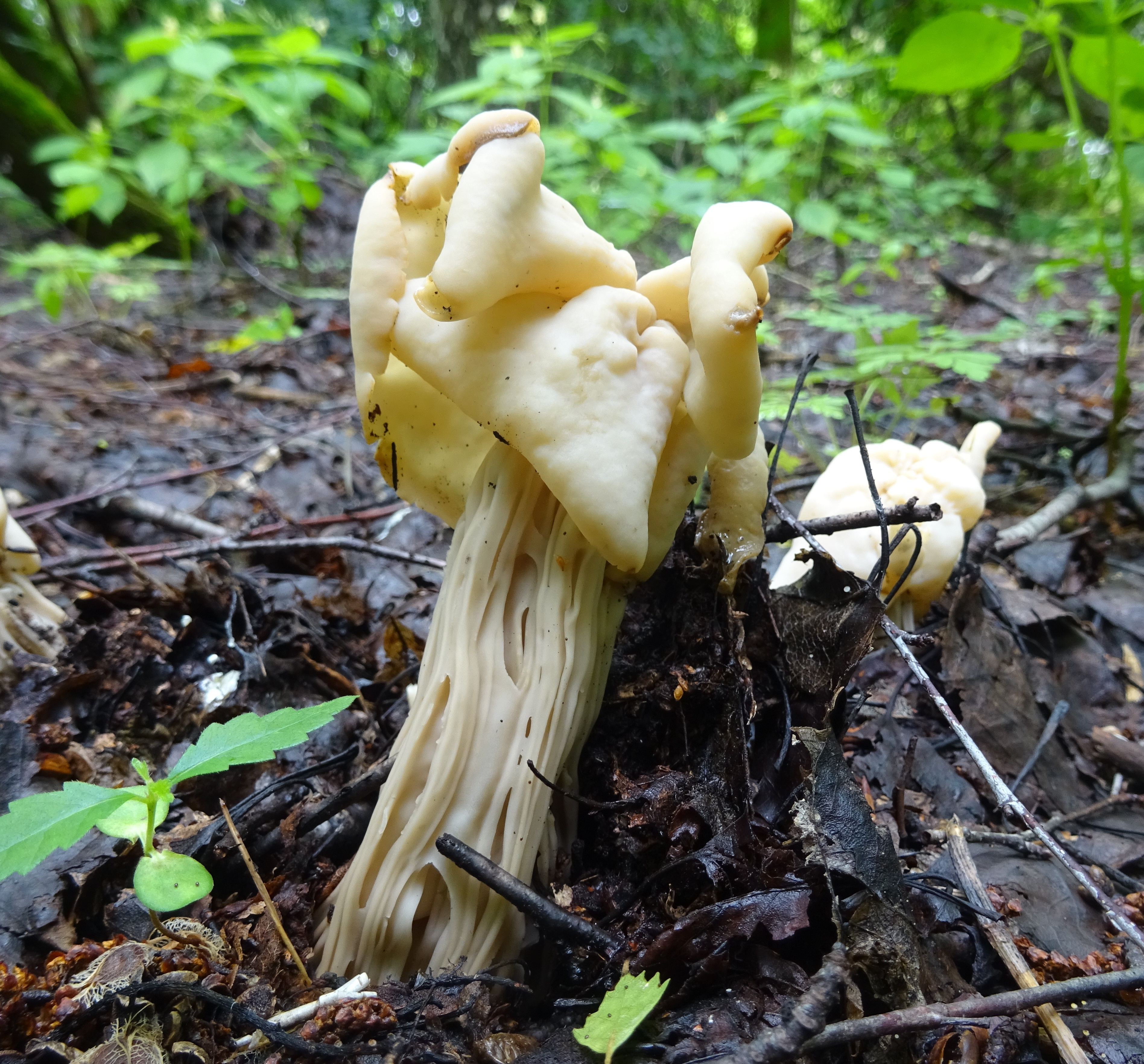 Helvella crispa. Found in a humid, mixed deciduous forest, in the lowlands. Kyiv region, city Berezan, 22.07.2018